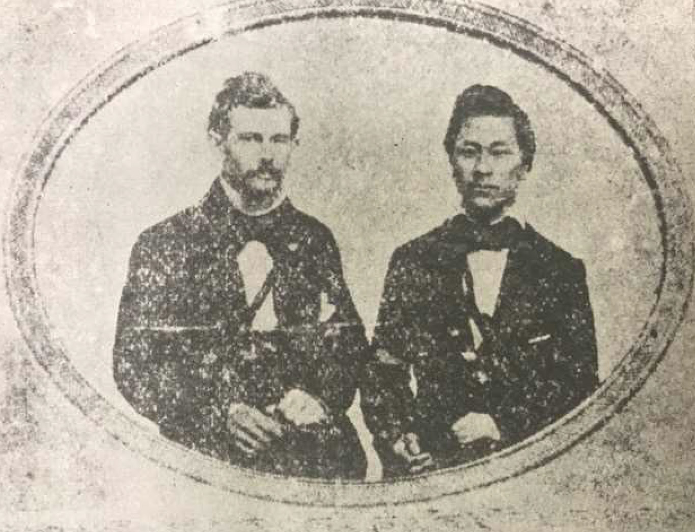 Eugene Van Reed with Joseph Heco, photograph taken in San Francisco, c. 1858.